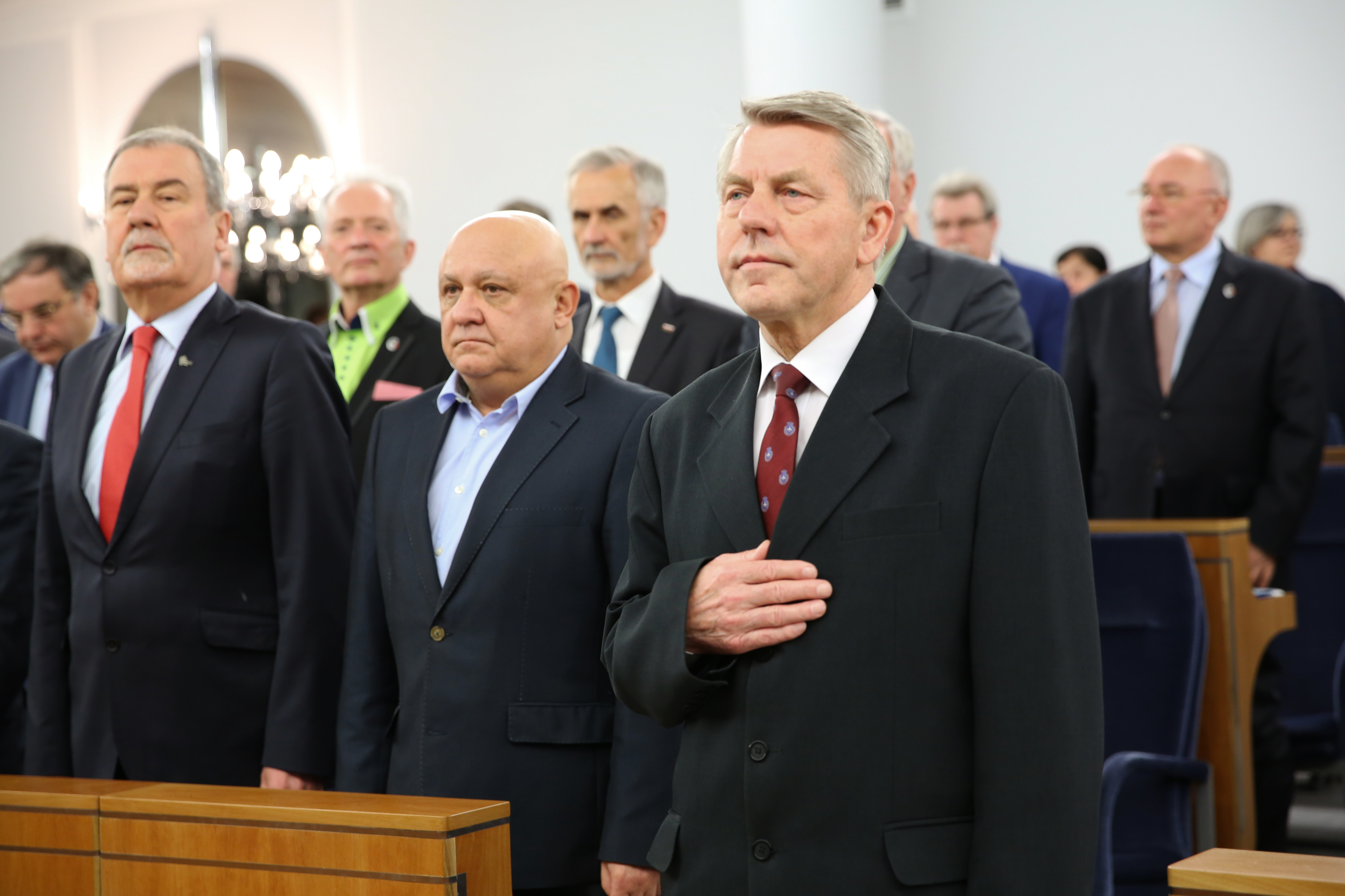 Senator Czesław Ryszka during 71st sitting of the Polish Senate